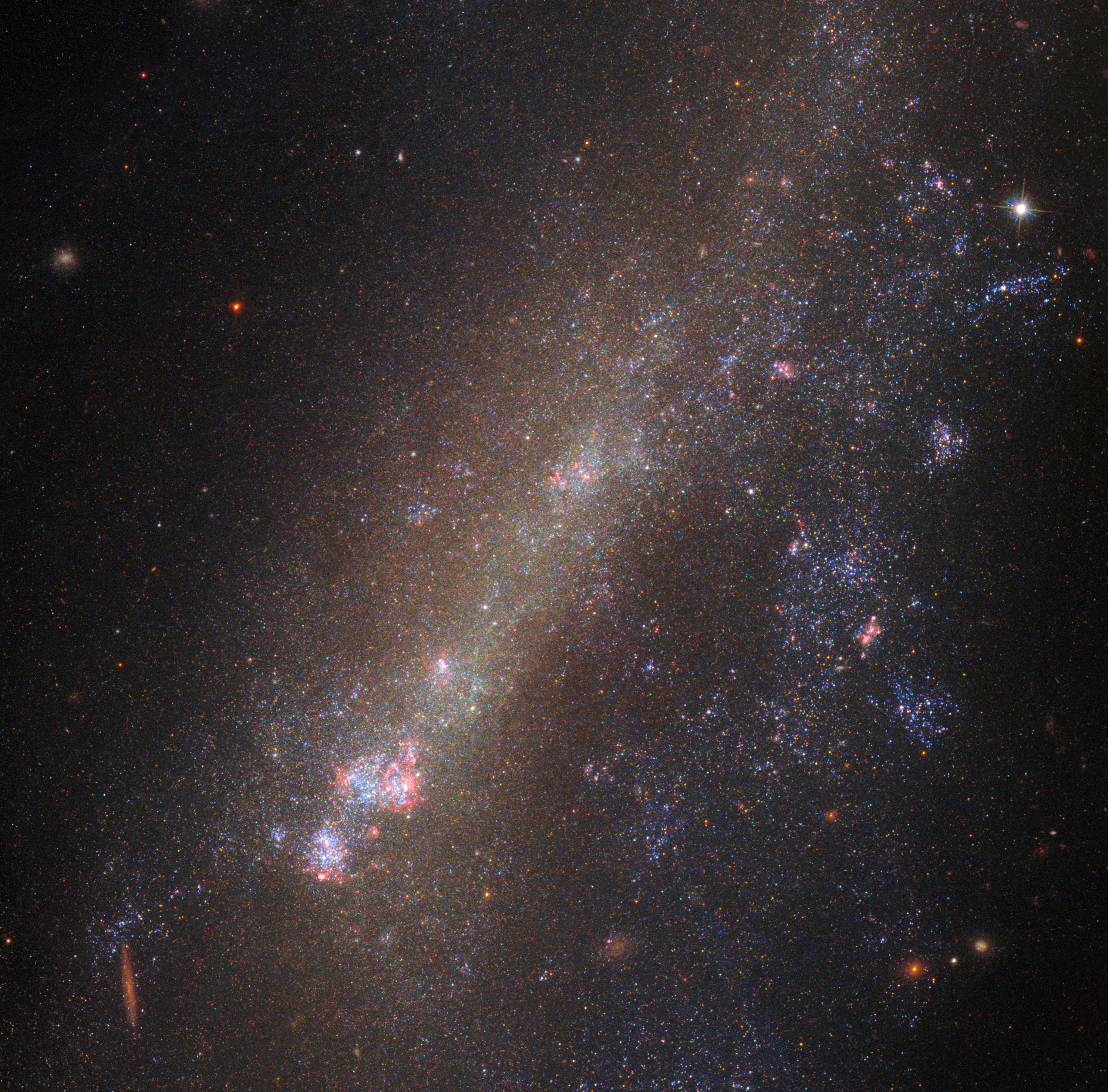 Gravity governs the movements of the cosmos. It draws flocks of galaxies together to form small groups and more massive galaxy clusters, and brings duos so close that they begin to tug at one another. This latter scenario can have extreme consequences, with members of interacting pairs of galaxies often being dramatically distorted, torn apart, or driven to smash into one another, abandoning their former identities and merging to form a single accumulation of gas, dust, and stars. The subject of this NASA/ESA Hubble Space Telescope image, IC 1727, is currently interacting with its near neighbour, NGC 672 (which is just out of frame). The pair’s interactions have triggered peculiar and intriguing phenomena within both objects — most noticeably in IC 1727. The galaxy’s structure is visibly twisted and asymmetric, and its bright nucleus has been dragged off-centre. In interacting galaxies such as these, astronomers often see signs of intense star formation (in episodic flurries known as starbursts) and spot newly-formed star clusters. They are thought to be caused by gravity churning, redistributing, and compacting the gas and dust. In fact, astronomers have analysed the star formation within IC 1727 and NGC 672 and discovered something interesting — observations show that simultaneous bursts of star formation occurred in both galaxies some 20 to 30 and 450 to 750 million years ago. The most likely explanation for this is that the galaxies are indeed an interacting pair, approaching each other every so often and swirling up gas and dust as they pass close by.